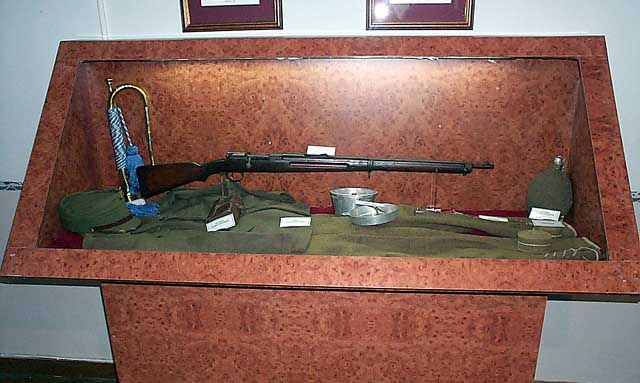 Uniform of Papakyriazis, image from the Balkan Wars Museum, Yefira, Central Macedonia, Greece